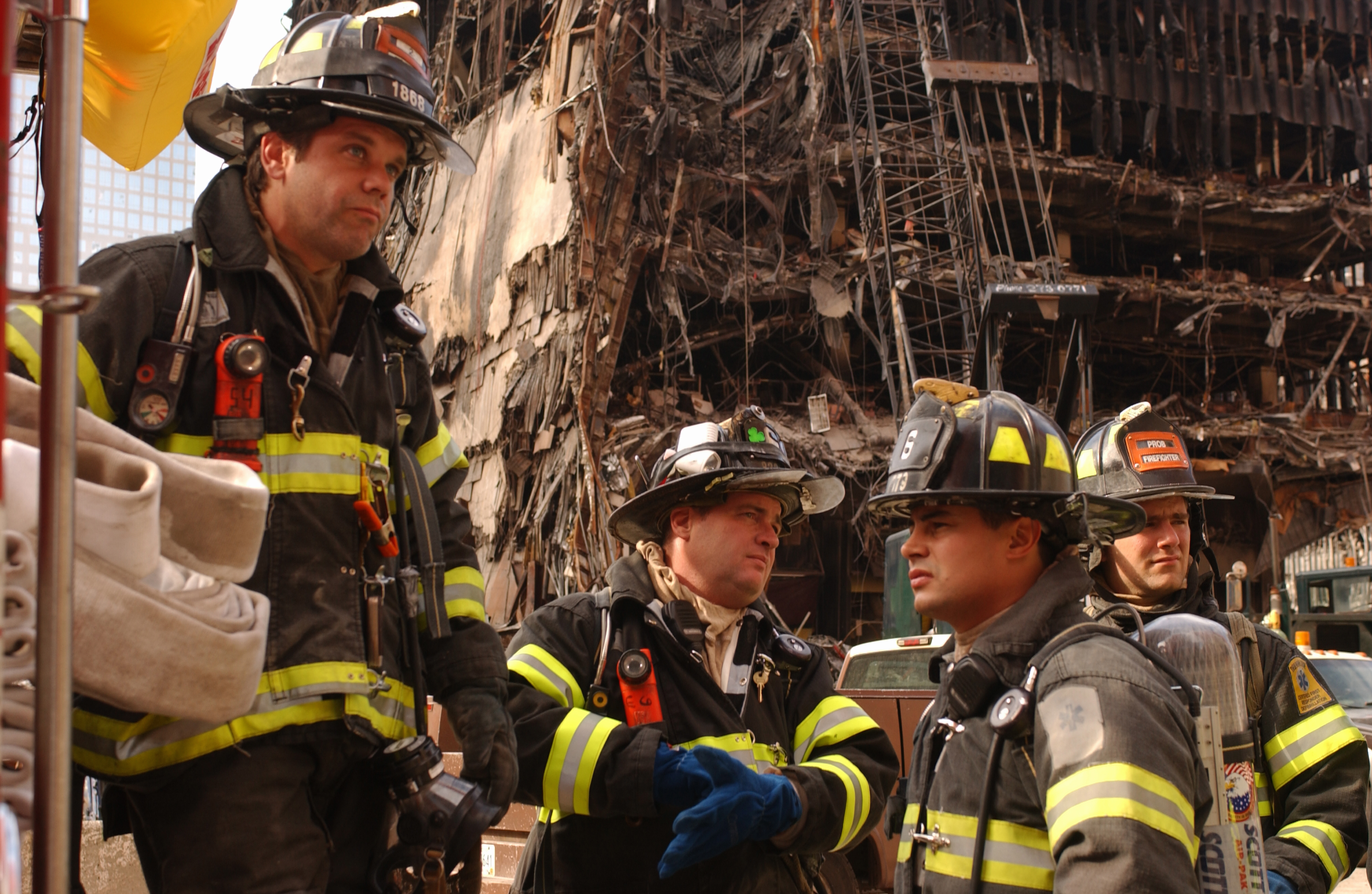 New York, NY, September 29, 2001 -- Firefighter amongst the wreckage of the World Trade Center. Photo by Andrea Booher/ FEMA News Photo